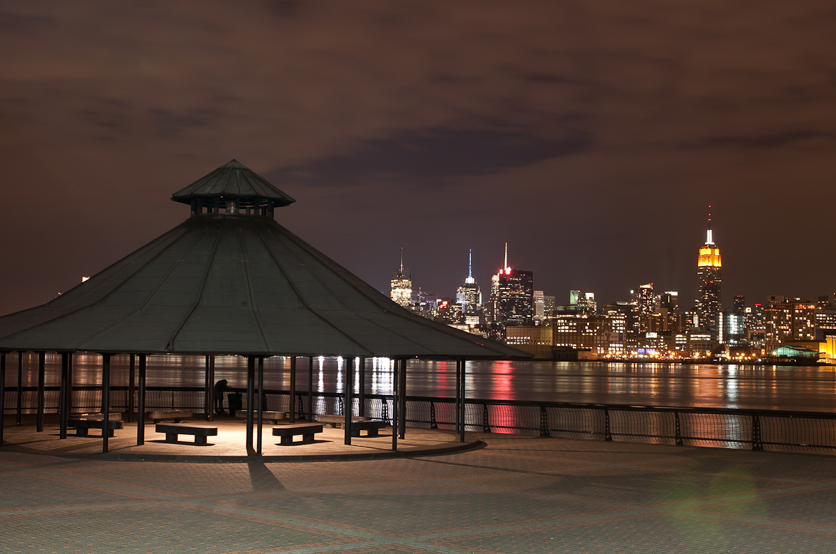 View of New York Midtown From Hoboken, Jersey City